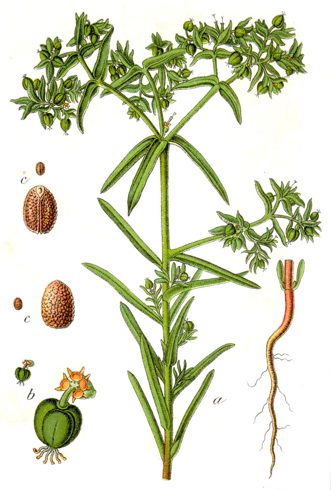 Euphorbia exigua L. Original Caption Kleine Wolfsmilch, Euphorbia exigua